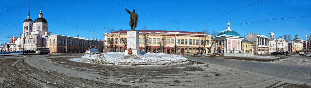 Lenina Square in Tomsk